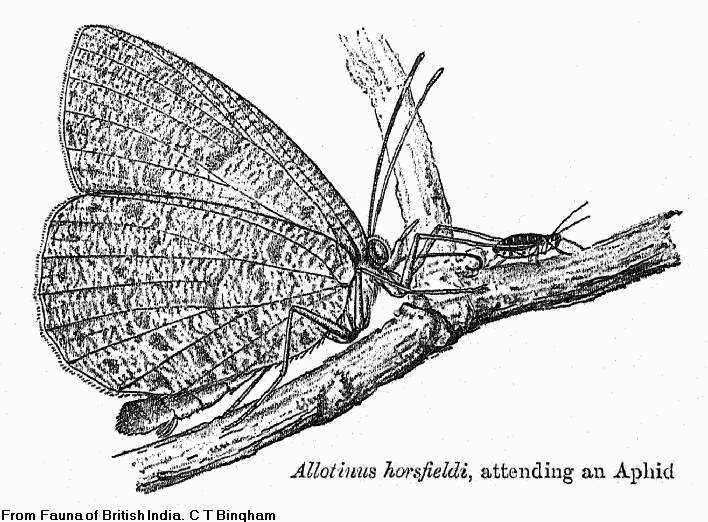 Allotinus horsfieldi (Moore, [1858])